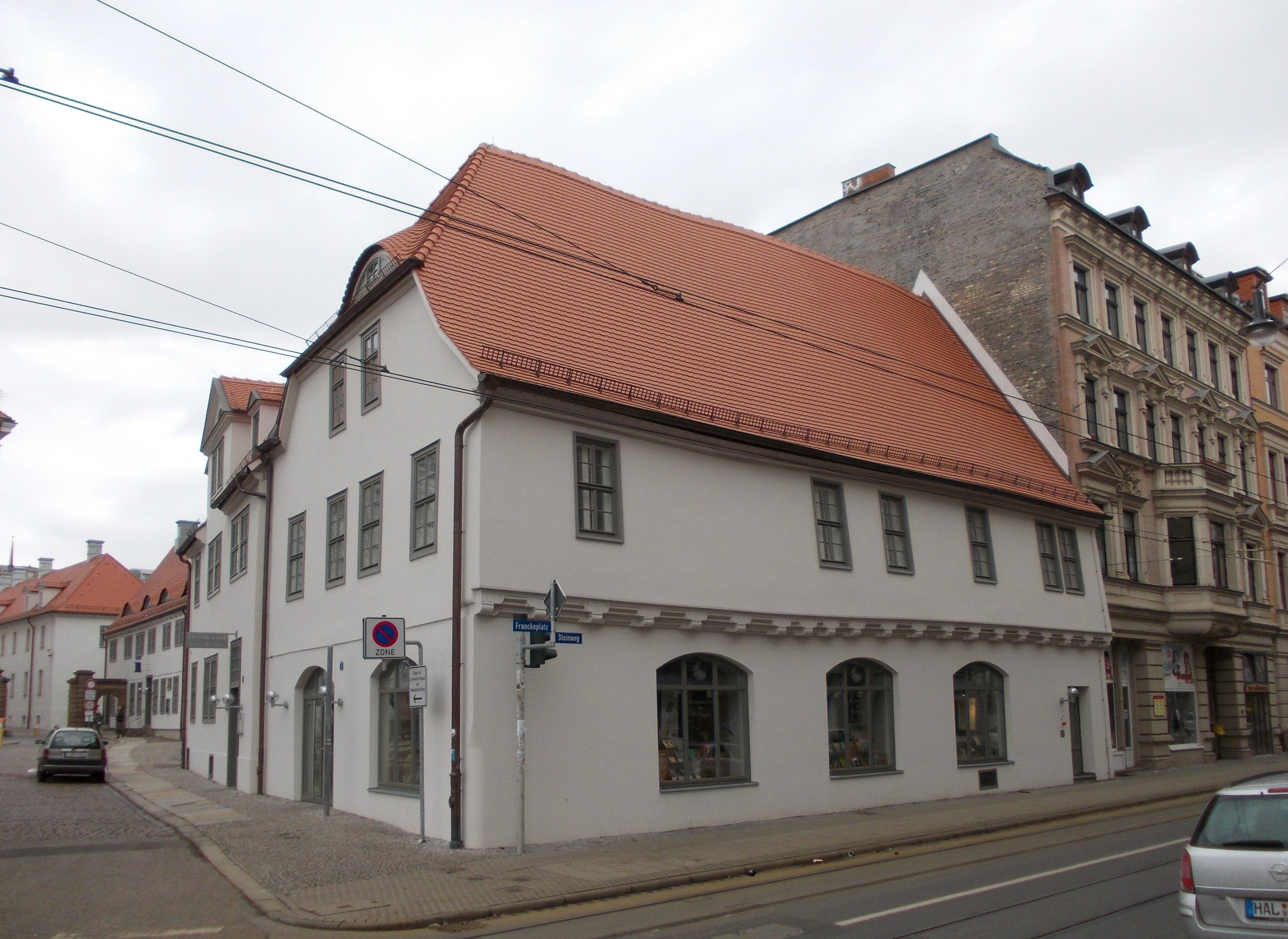 Bookshop of the Francke Foundations in Halle (Saale)